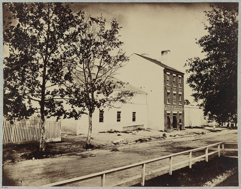 Photograph shows street view of buildings along the 1300 block of Duke Street, including Price, Birch & Co., which were used to hold slaves awaiting auction.